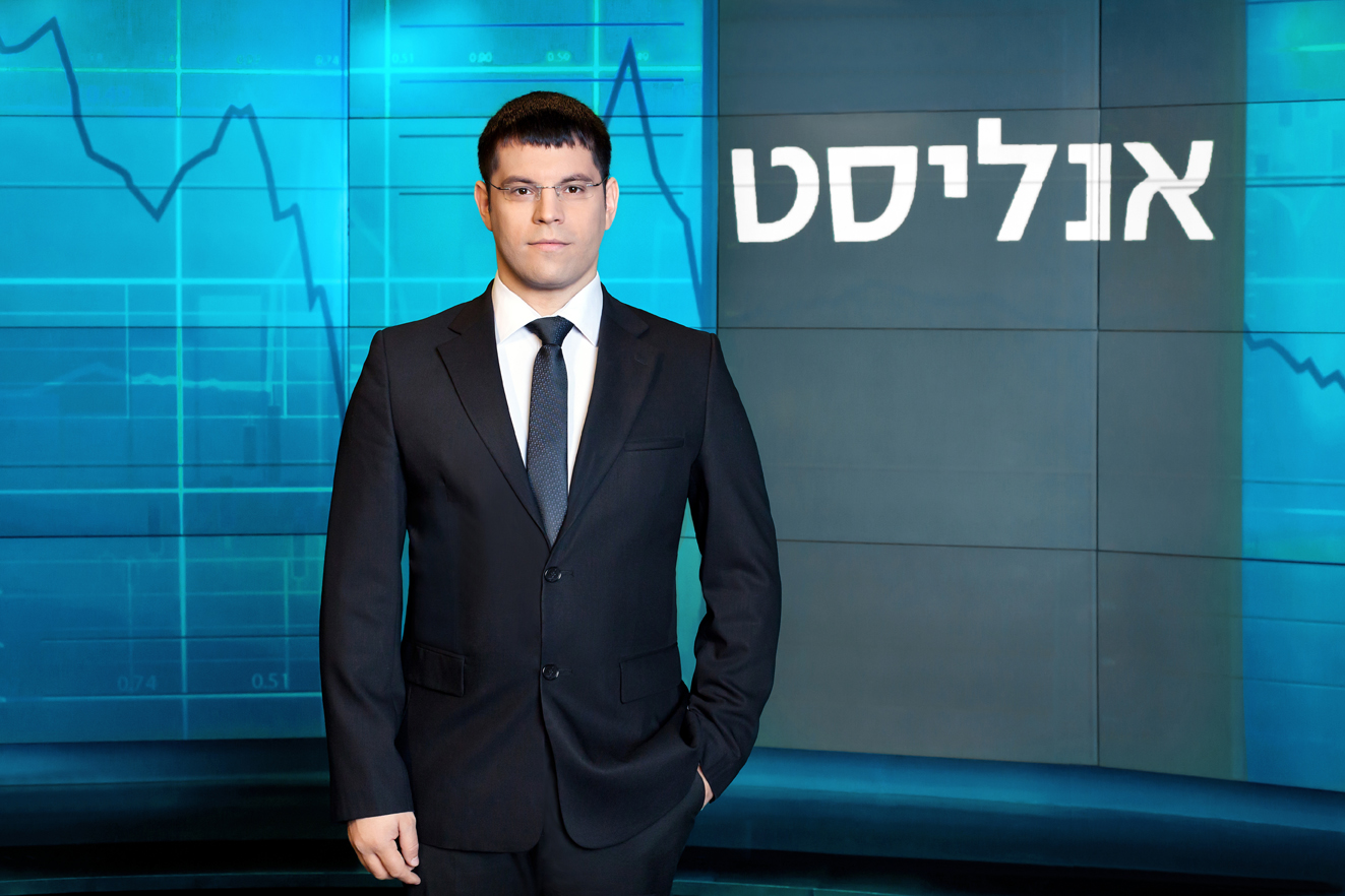 Channel 10 News (Israel) Journalist